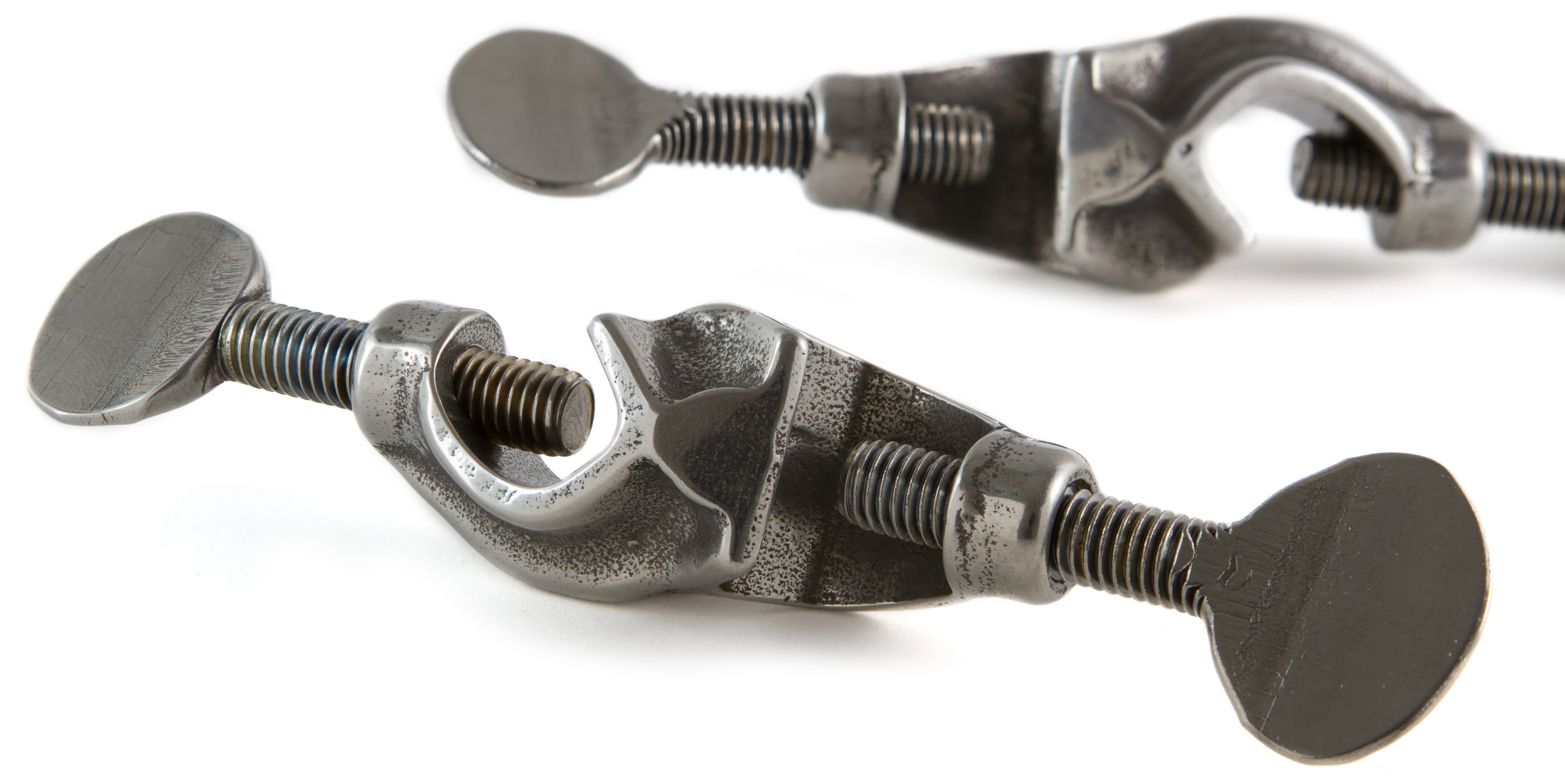 Stainless steel bossheads as used in laboratories.